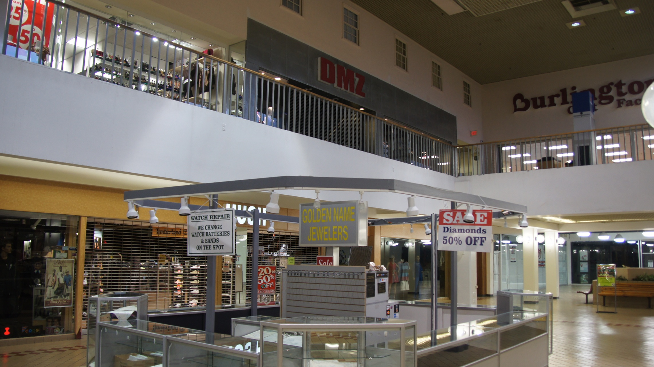 Everybody Walk week, sponsored by Kaiser Permanente, in Washington, DC Iverson Mall Walkers - Iverson Mall, Temple Hills, MD